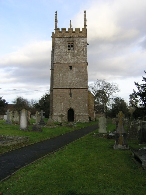 St Teilo's parish church, Llanarth, Monmouthshire, seen from the west